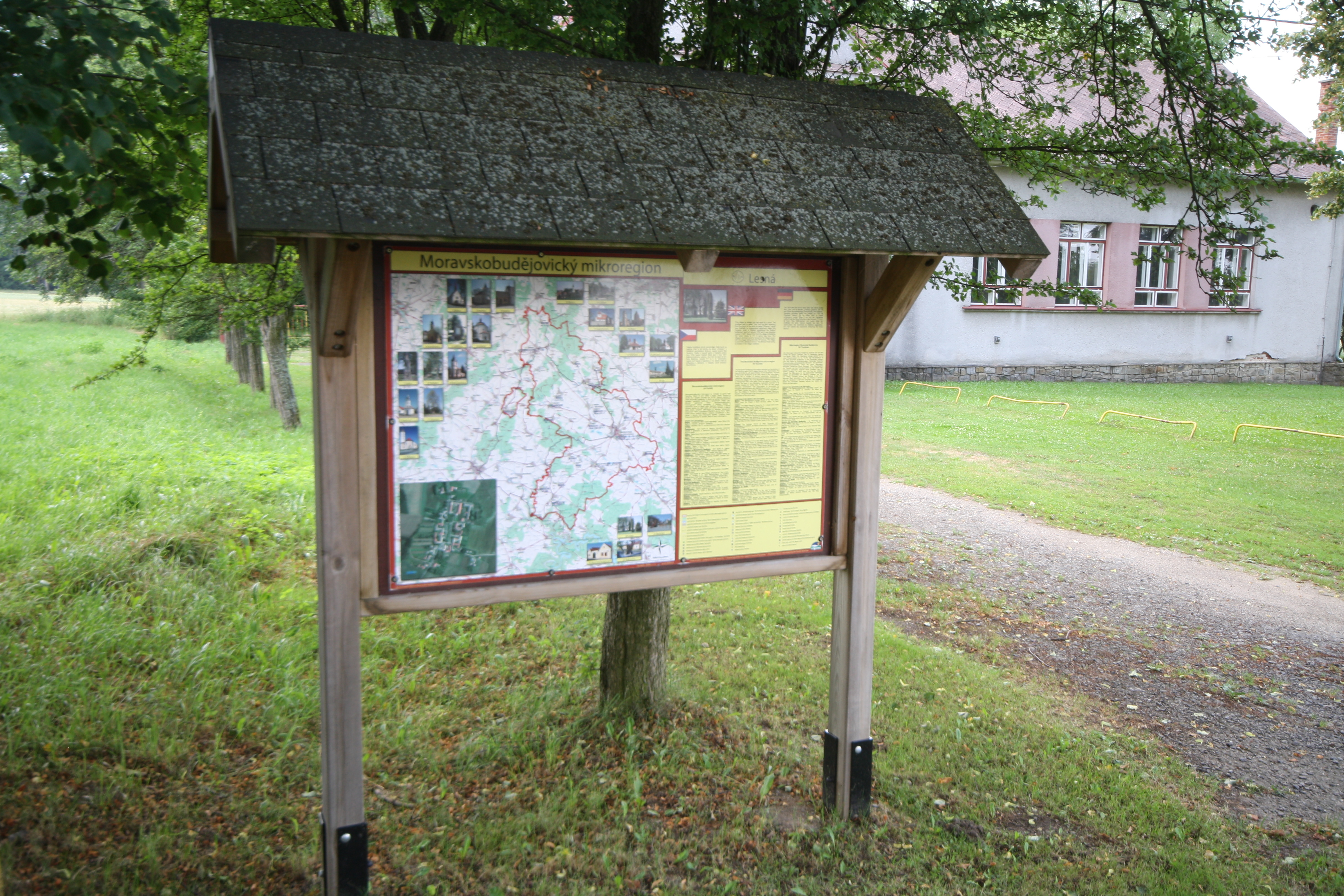 Sign of Microregion Moravskobudějovický in Lesná, Třebíč District.